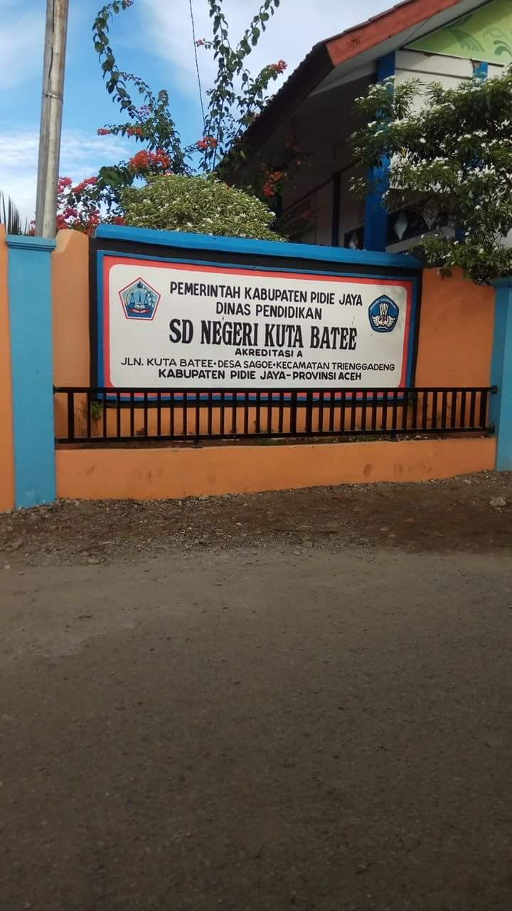 Kuta Batee elementary School Location at Gampong Sagoe Trienggadeng Pidie Jaya District